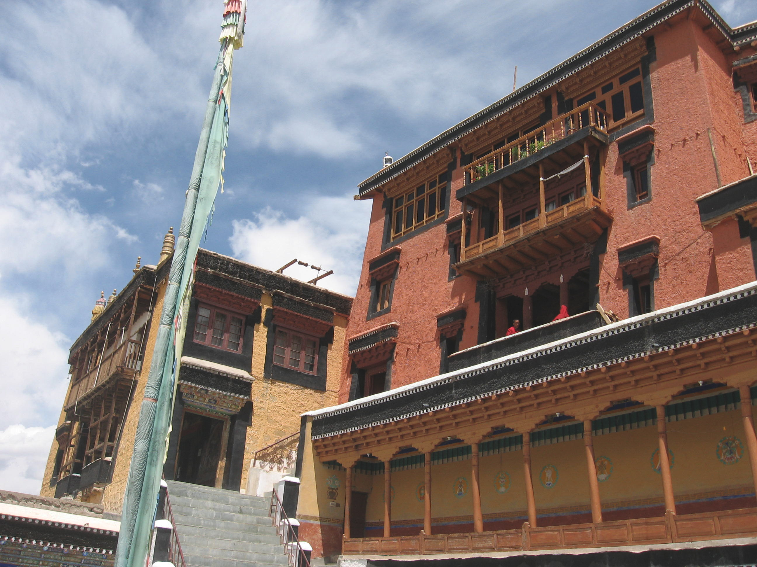 Thikse monastry